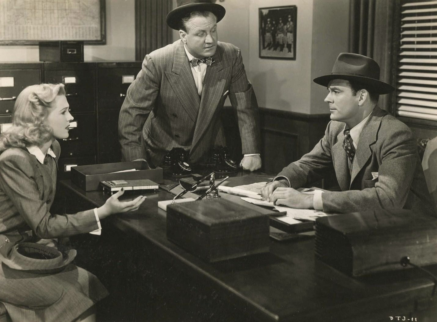 L. to R. : Anne Gwynne, Lyle Latell & Ralph Byrd in Dick Tracy Meets Gruesome (1947) - publicity still (original image damaged, cropped and modified : see source)